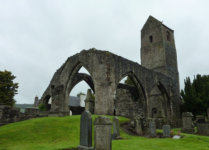 Muthill Old Church, Muthill, Perth and Kinross, Scotland. View from north east.